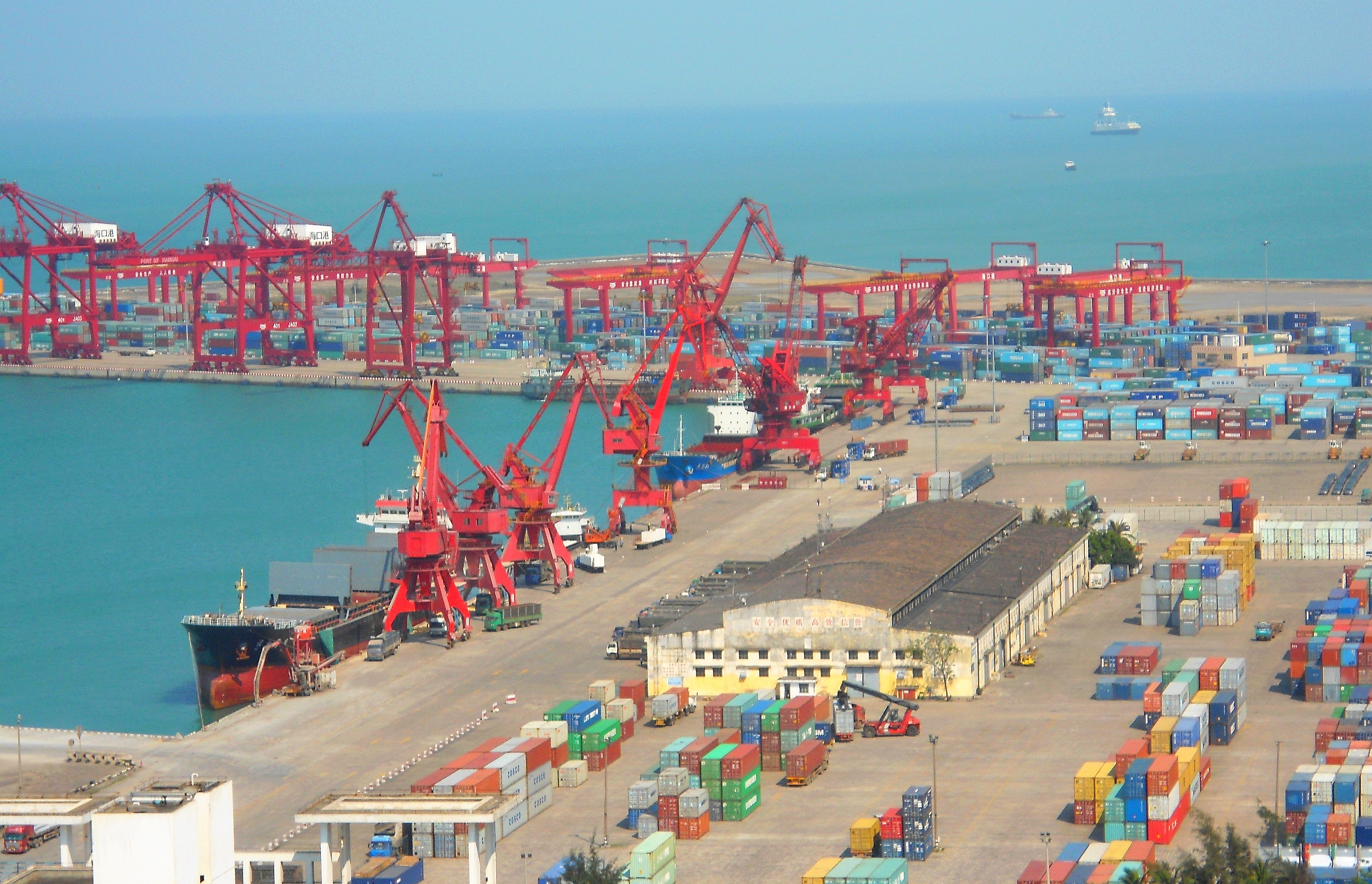 Haikou Xiuying Port, Haikou, Hainan Province, People's Republic of China